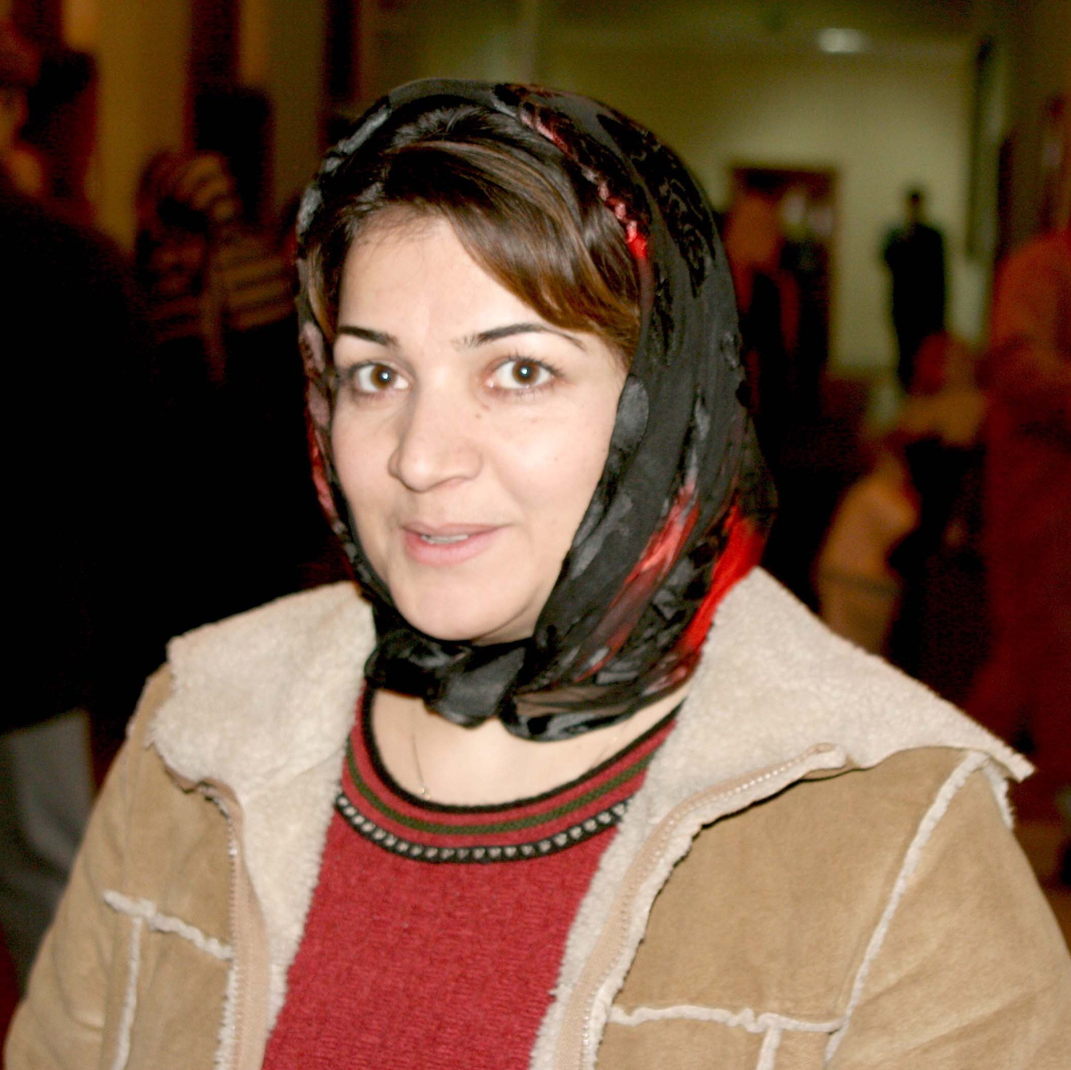 Fauzia Gailani, member of Afghanistan's parliament.